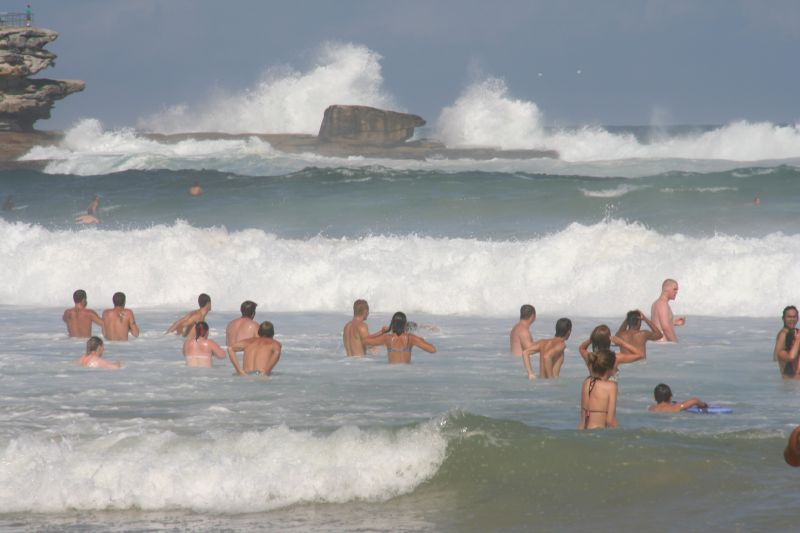 Bondi Beach Waves